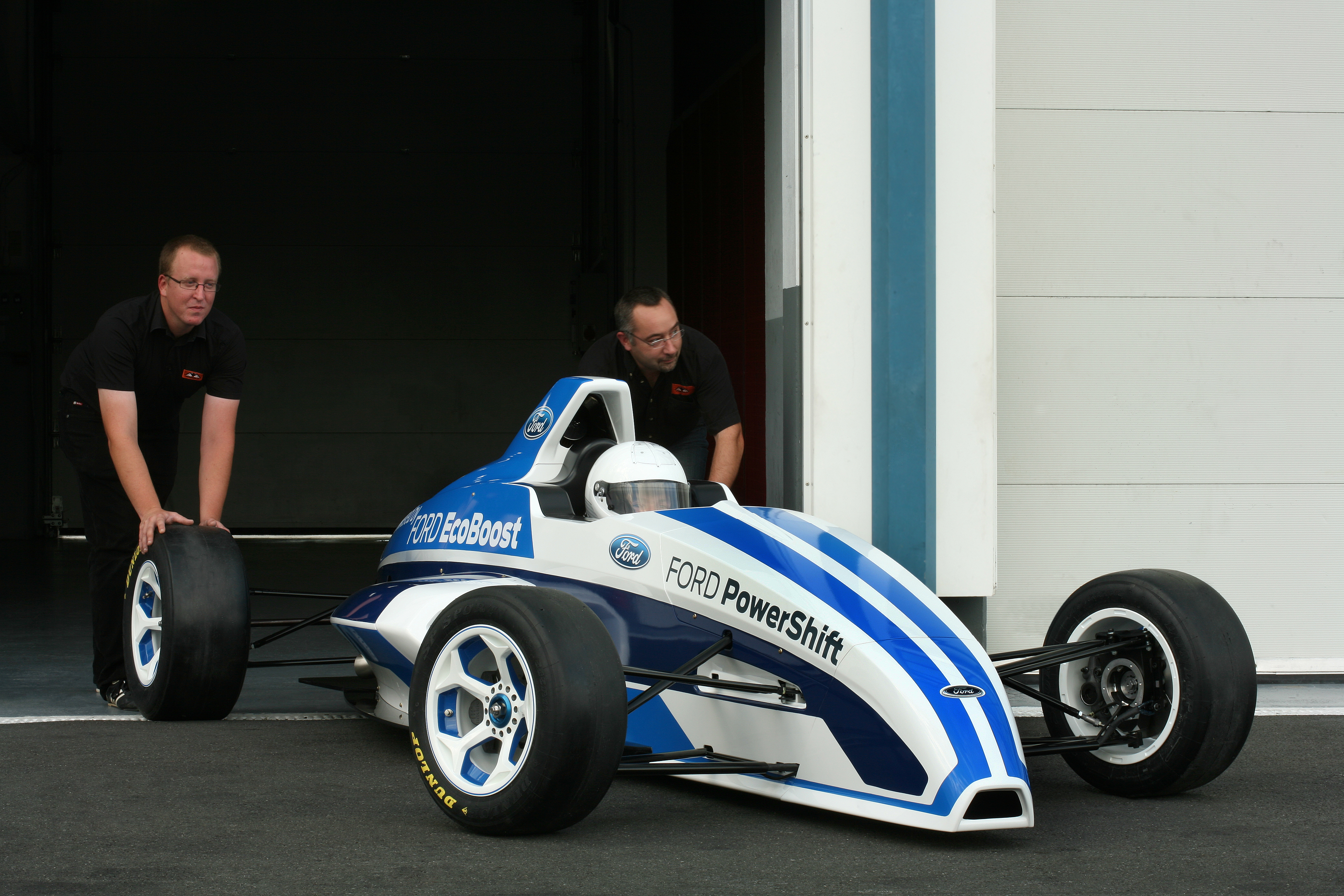 The first images of the 2012 Formula Ford Ecoboost